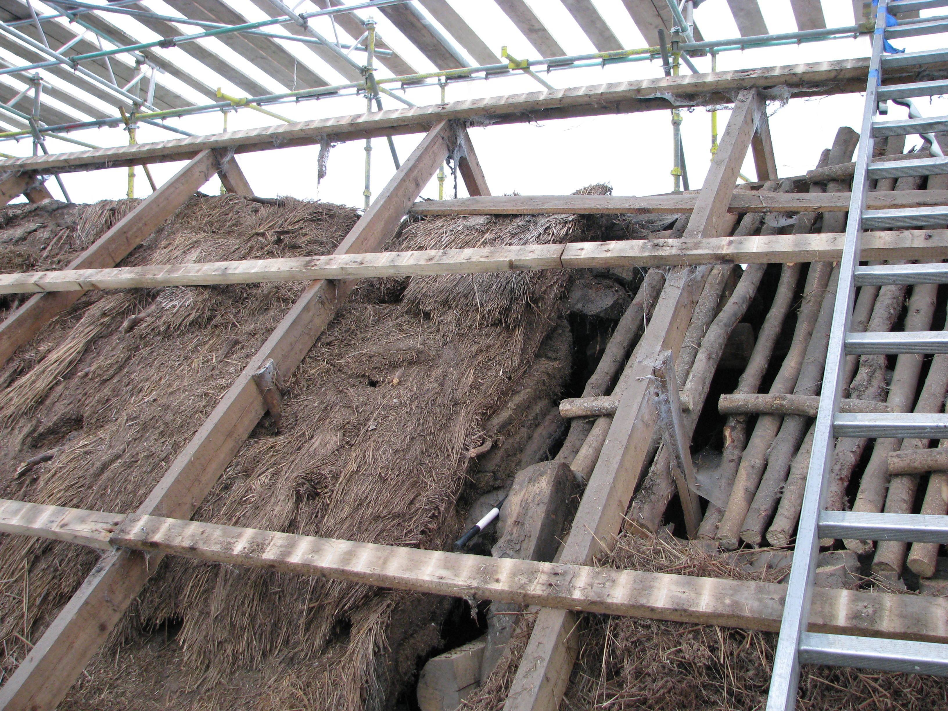 A section through the roof of the Moirlanich Longhouse showing rye, rushes & turf